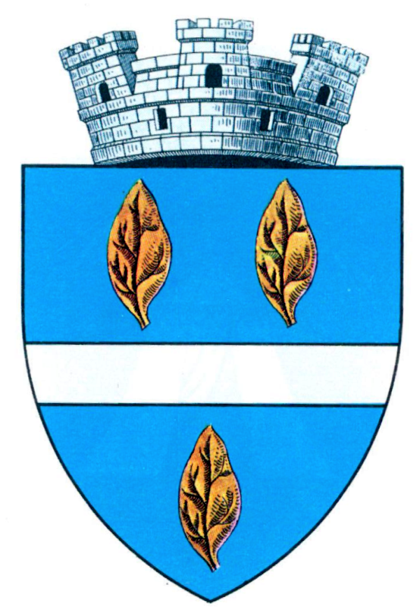 Interwar coat of arms of Găești, Dâmbovița County, Kingdom of Romania.